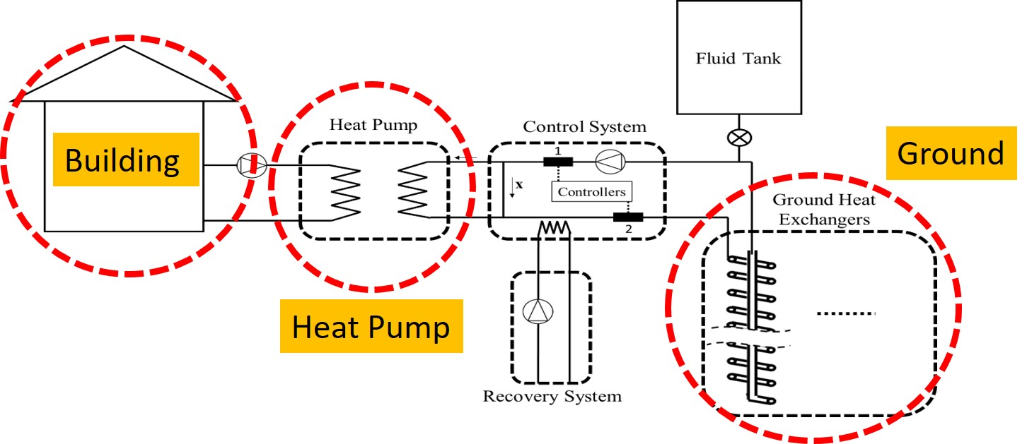 Integration of GSHP system and building